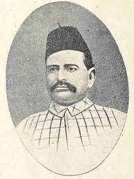 Pandit Ratnnath Sarshar (d. 21 January 1903)